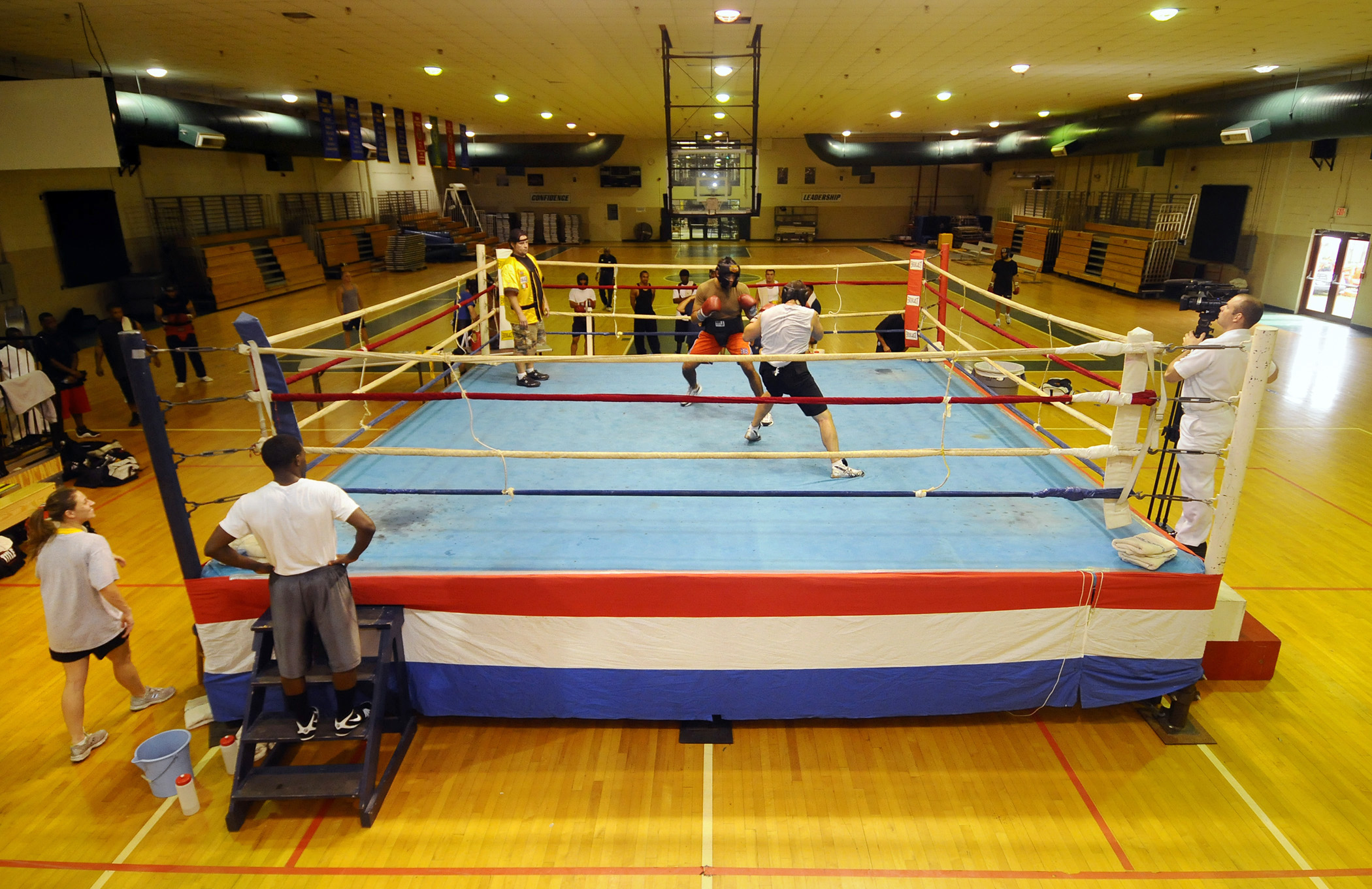 VIRGINIA BEACH, Va. (Oct. 11, 2008) Navy boxers spar during the All-Navy Boxing Team mini-camp at Rockwell Hall Gym at Naval Amphibious Base Little Creek. The two-day camp was one of two held across the country by All-Navy Boxing. Participants selected from the mini-camps received invitations to attend the All-Navy Boxing Training Camp at Naval Base Ventura County in Port Hueneme, Calif. and compete for a spot on the 2009 All-Navy Boxing Team. (U.S. Navy photo by Mass Communication Specialist 2nd Class Kristopher S. Wilson/Released)